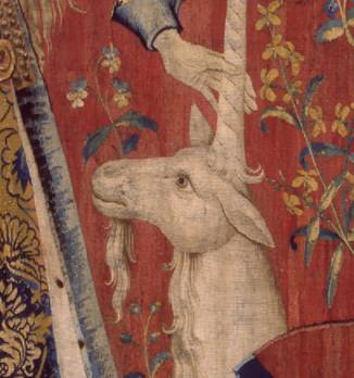 The Lady and the Unicorn (French: La Dame à la licorne) also called the Tapestry Cycle is the title of a series of six Flemish tapestries depicting the senses. They are estimated to have been woven in the late 15th century in the style of mille-fleurs